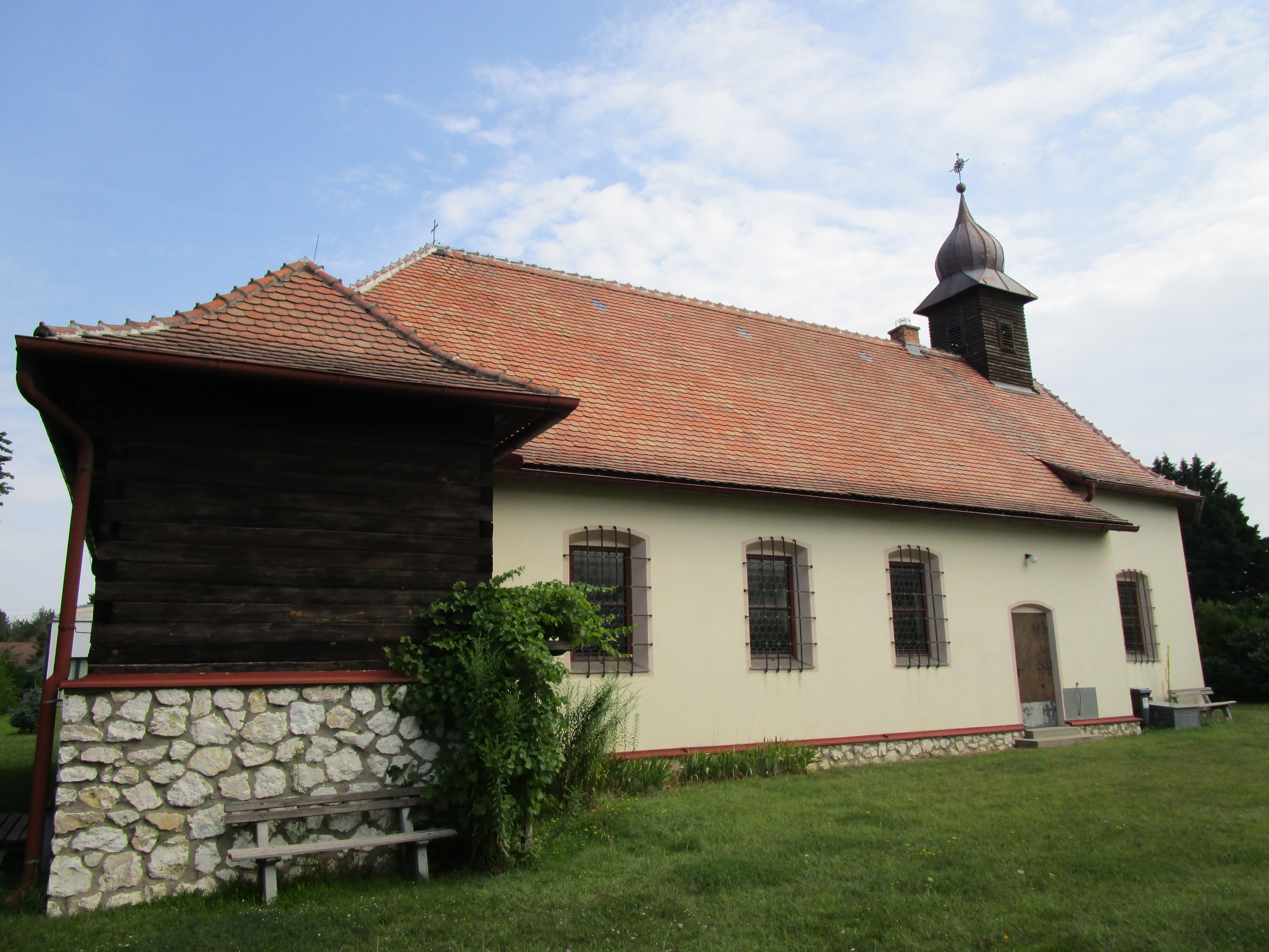 The Roman Catholic filial church Silberwald is situated in the local district Silberwald of the municipality Strasshof an der Nordbahn in the district of Gänserndorf in Lower Austria. The picture shows the exterior of the church.